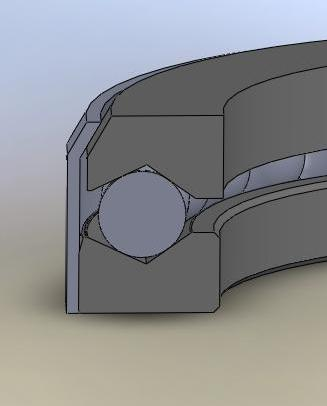 Cutaway of ball bearings in a v-groove raceway showing four points of contact.